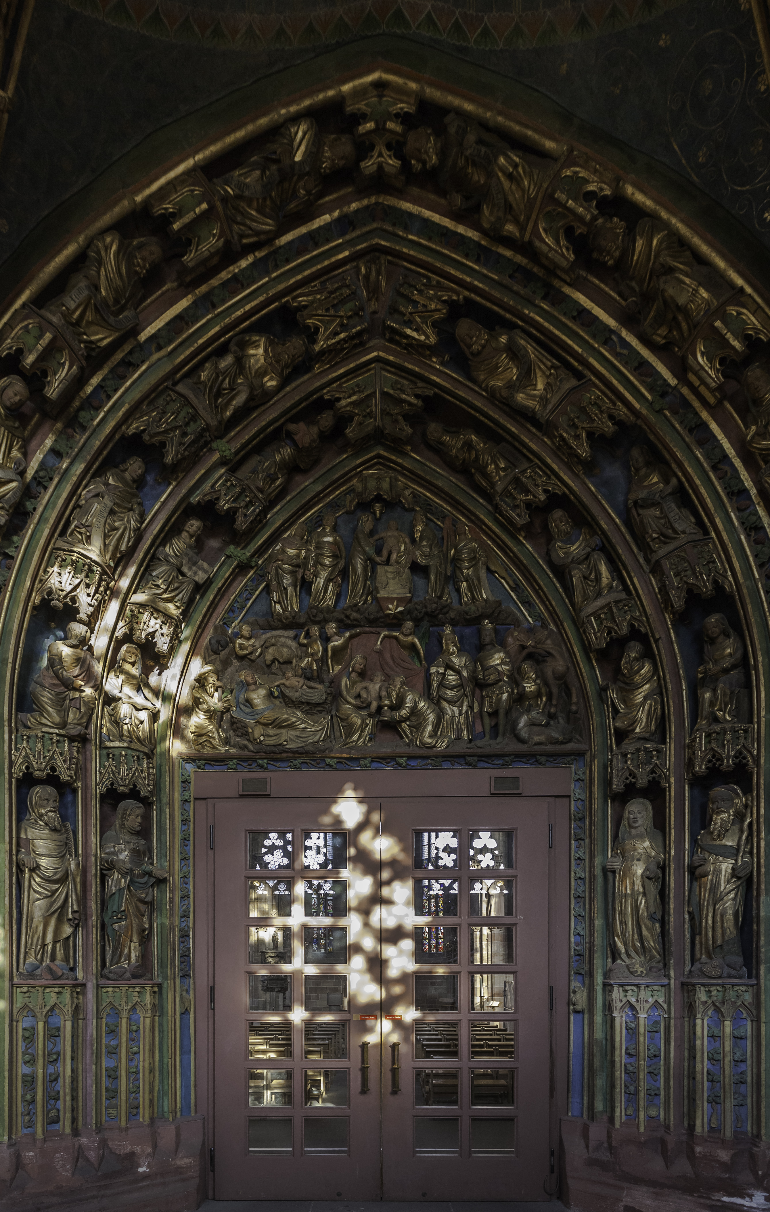 Church or Our Lady, Nuremberg, Germany